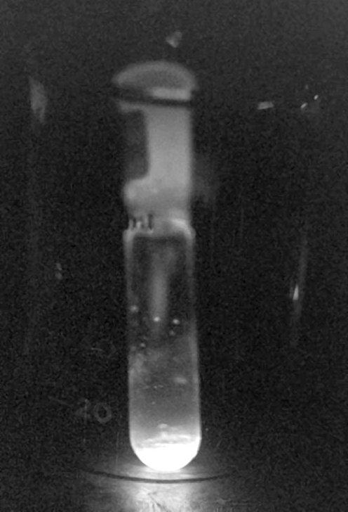 Self‐luminescence arising from the intense radiation from ~300 µg of 253Es solid in a quartz cone (9 mm diameter). The heat and radiation accompanying decay often generate detrimental effects in studies of Es.